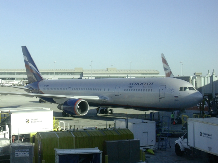 Aeroflot at Toronto-Pearson